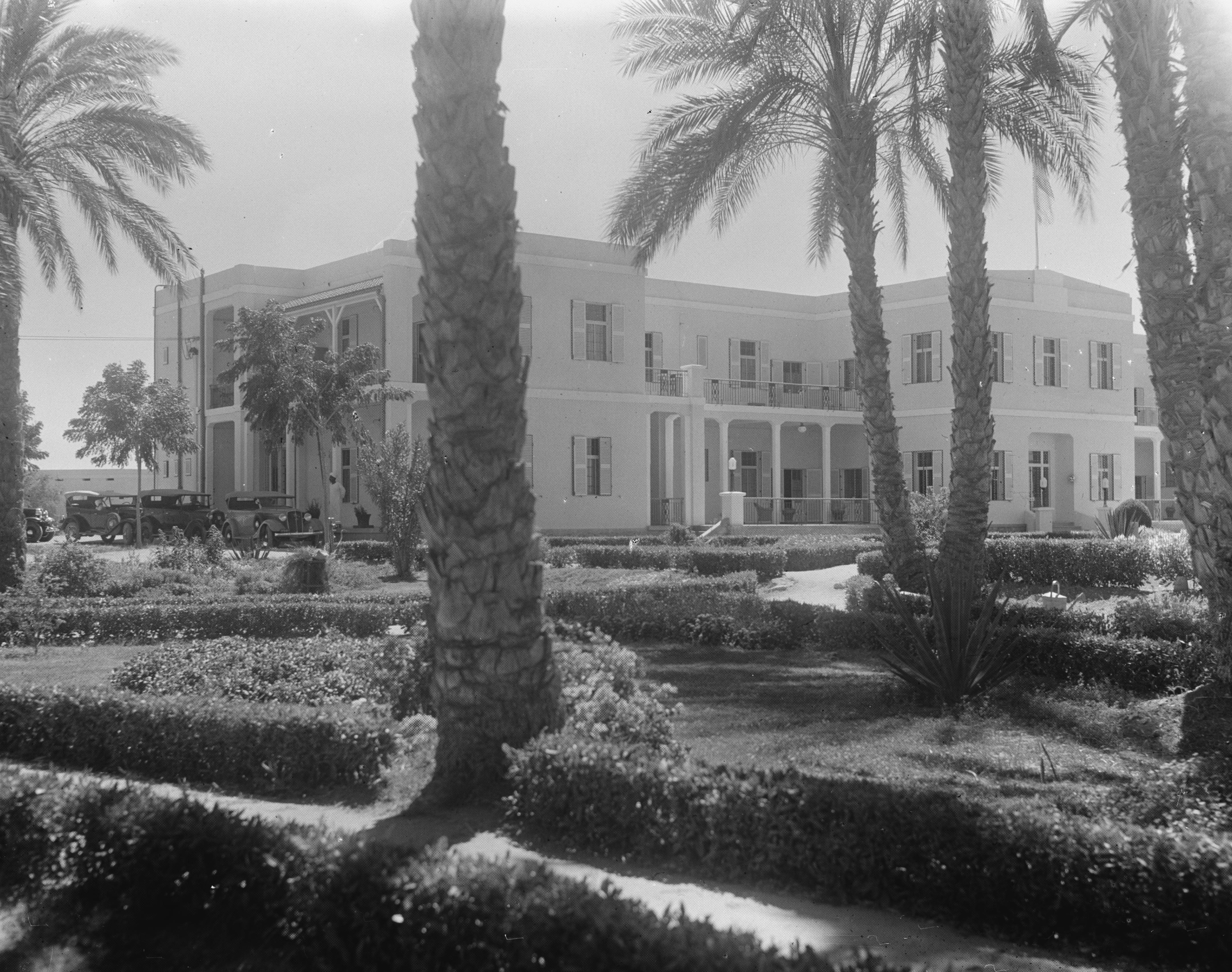 Sudan. Wadi Halfa. The R.R. Hotel from garden